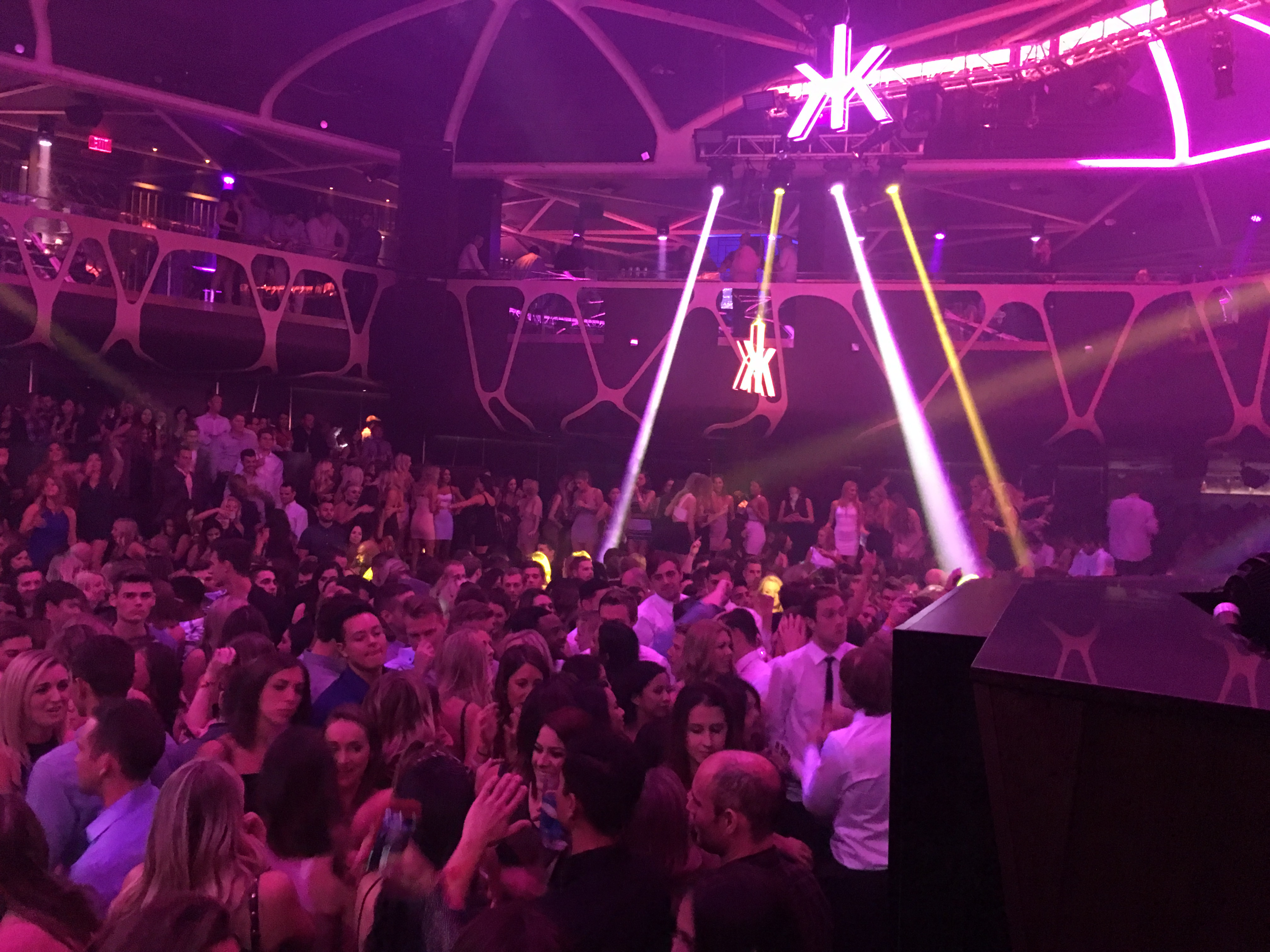 Hakkasan Night Club, Las Vegas